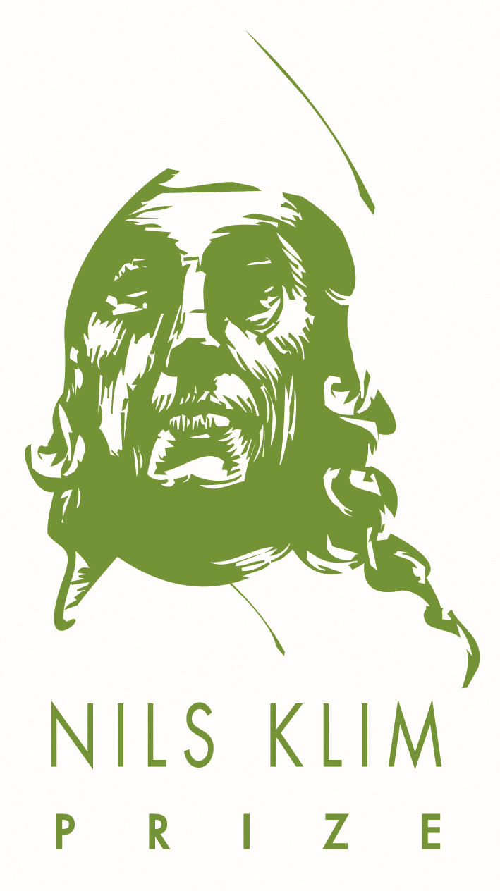 Logo for the Nils Klim Prize